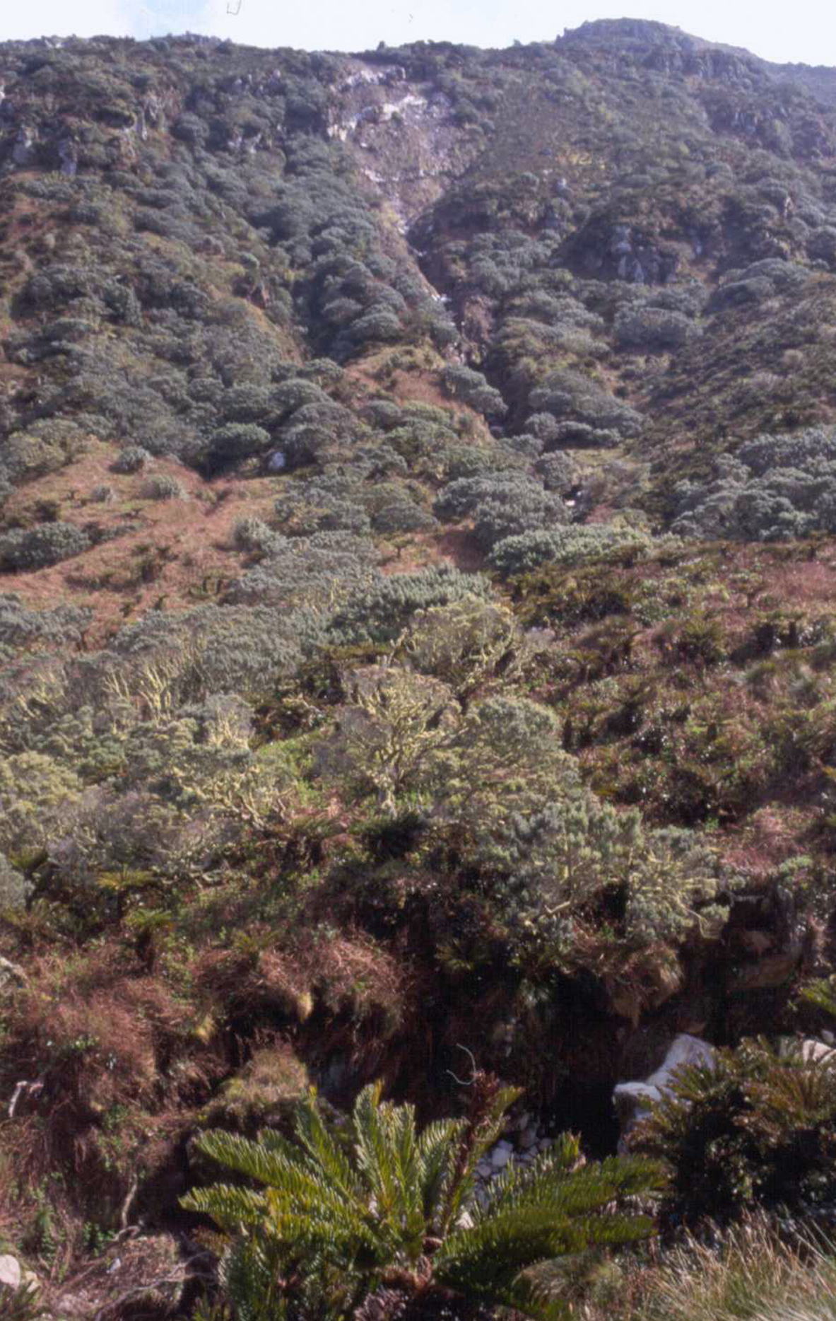 Gough Island. Lower down on the island, showing the tree fern Blechnum palmiforme and Phylica arborea, one of only two true trees, on the island.